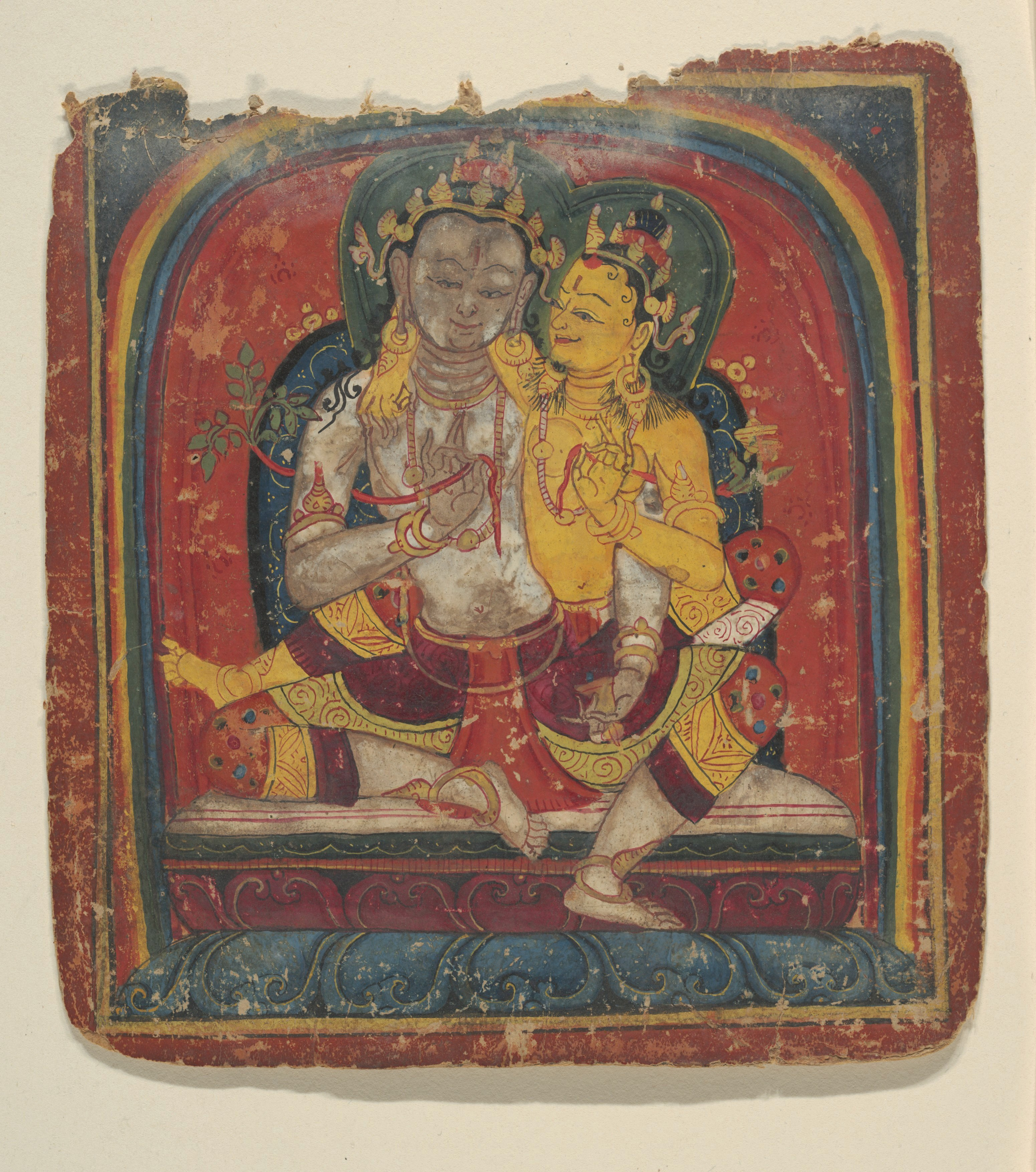 Initiation Card (Tsakalis), Maytreya. 13-14th century, Metmuseum